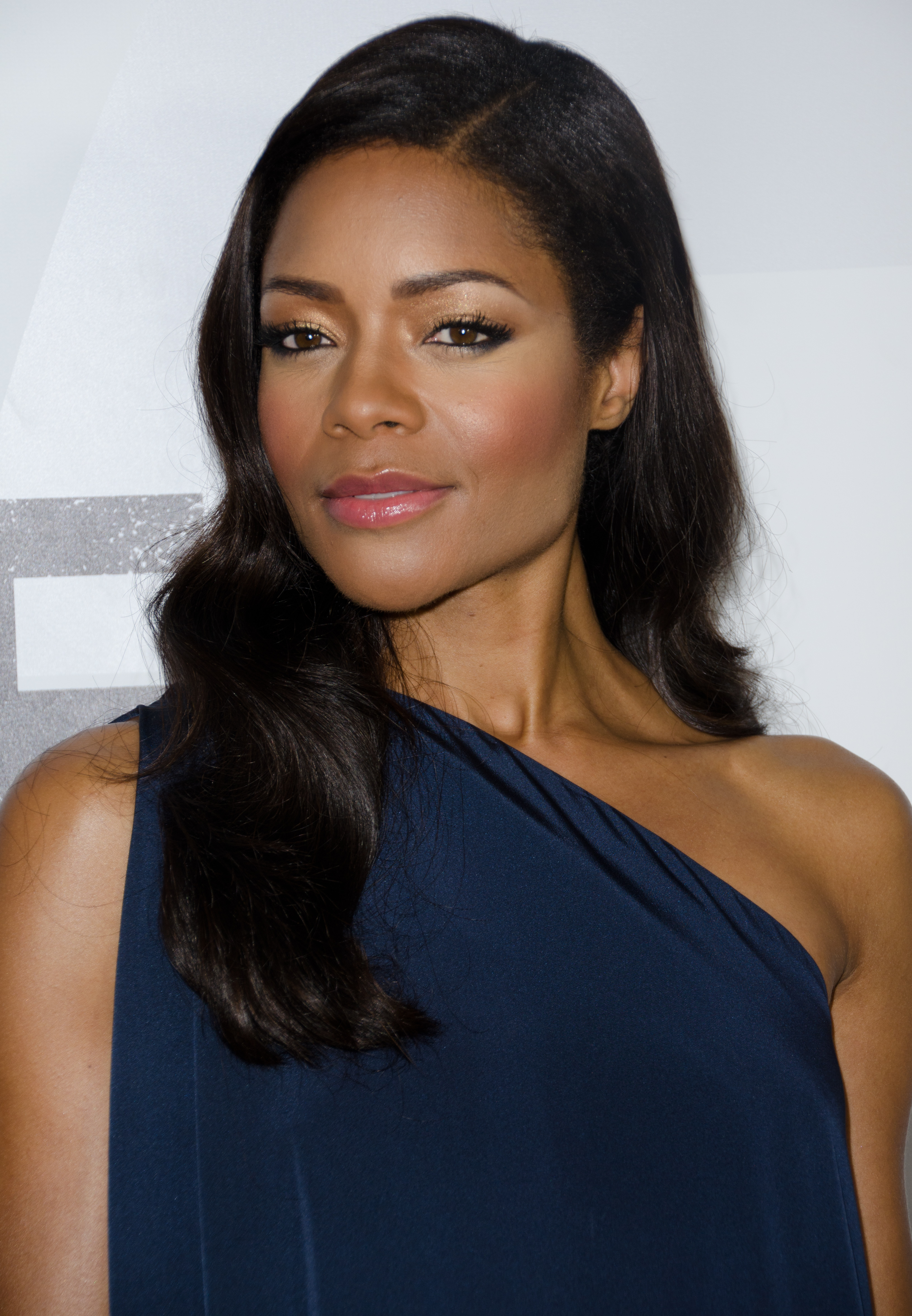 Naomie Harris at the The Australian Premiere of James Bond - Skyfall at the State Theatre in Sydney, 2012.